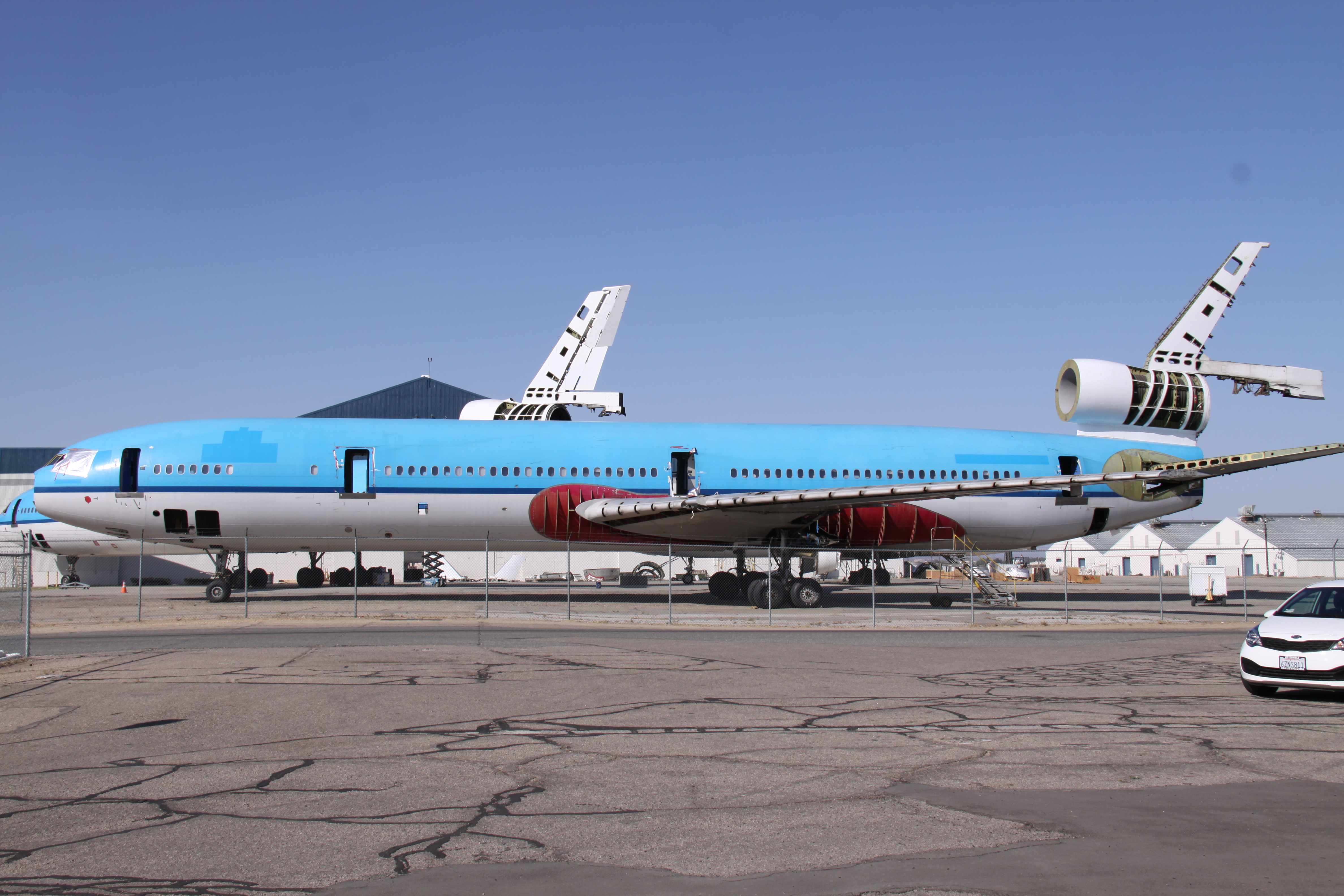 At Victorville